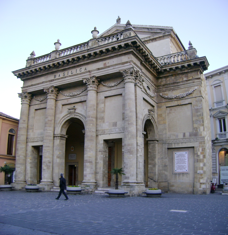 The Madonna del Ponte Basilica, Lanciano, province of Chieti, Abruzzo